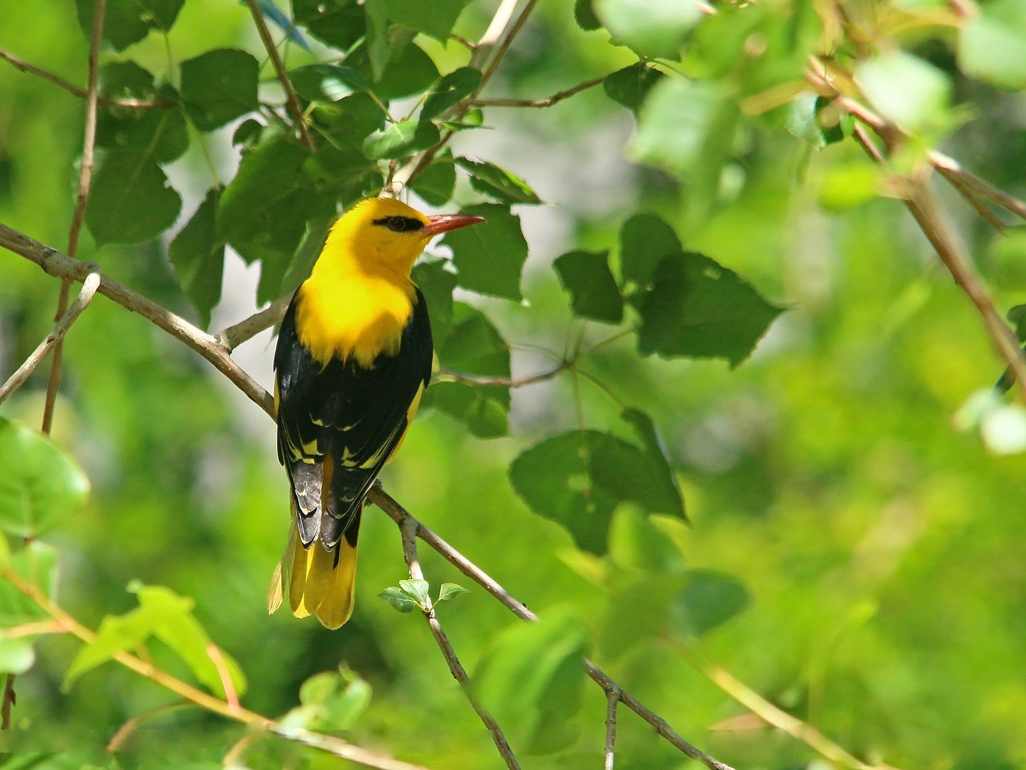 Golden Oriole (Oriolus oriolus) captured at Jutial, Gilgit, Gilgit-Baltistan, Pakistan with Canon EOS 70D